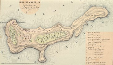 Map of the Isle of Anjediva